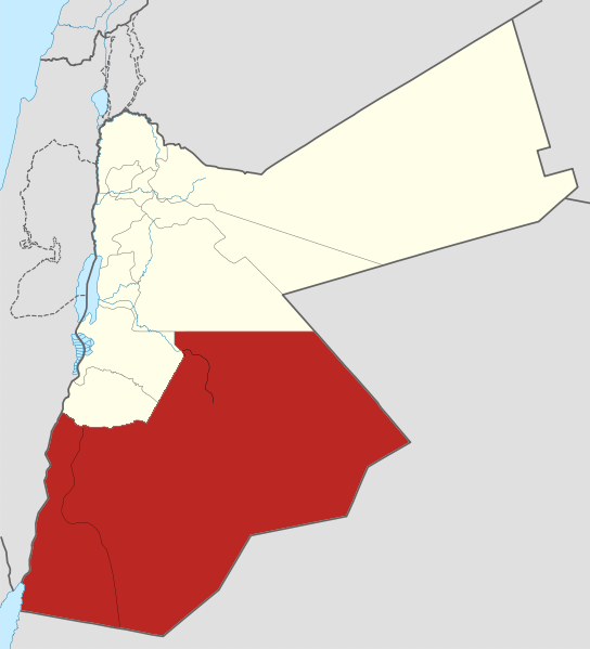 Jordan location map - Southern Desert